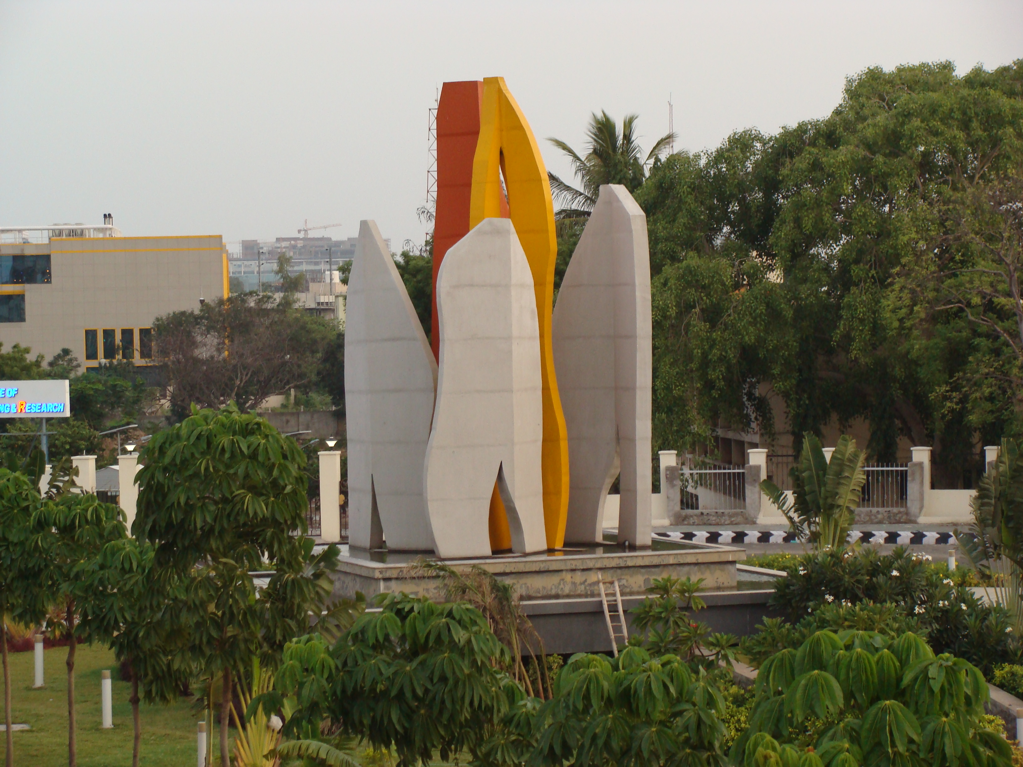 The Fire Junction at the IT corridor